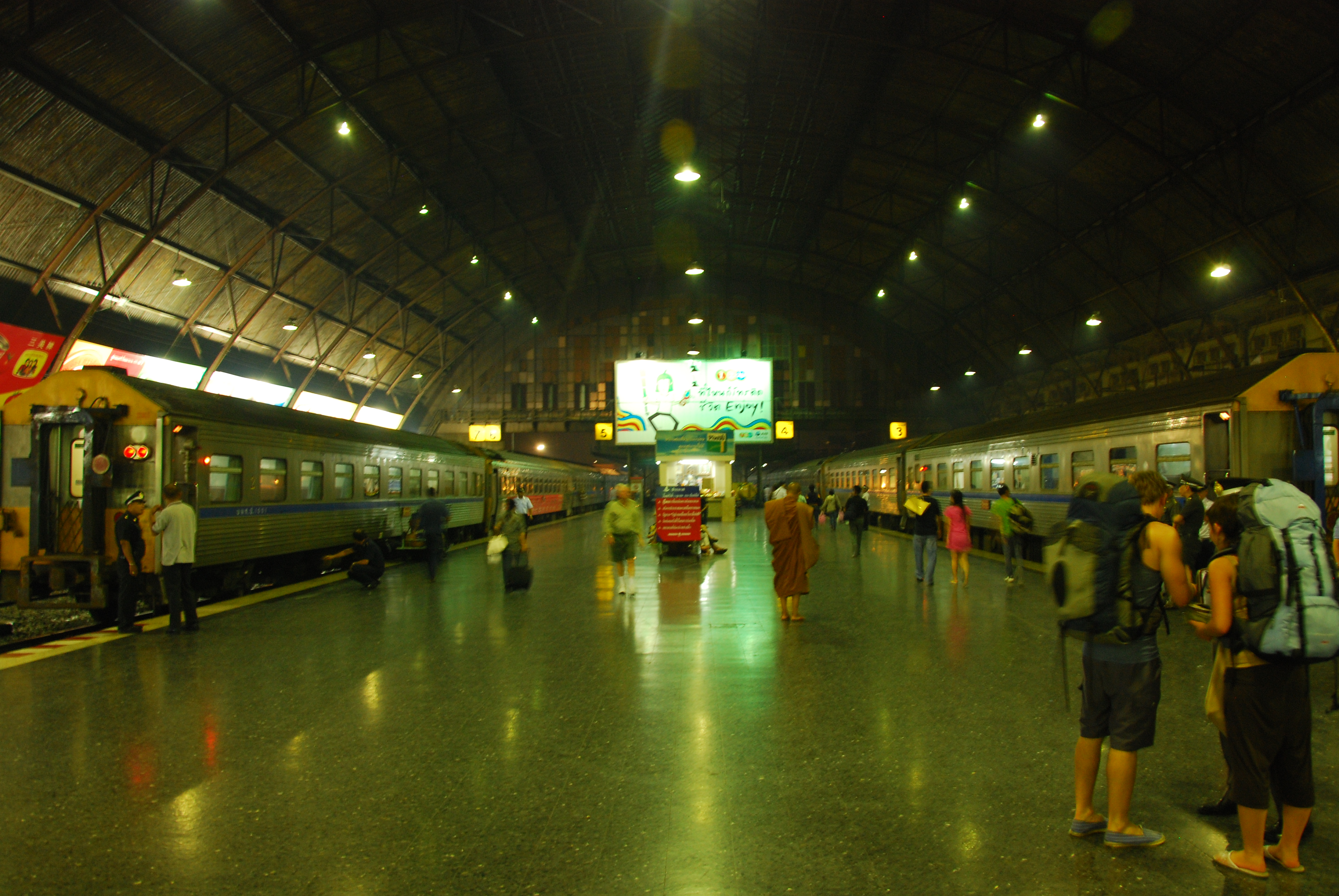 Hua Lamphong Railway Station (main) in Bangkok, Thailand. Photo taken in 2009 en route to Nong Khai, Thailand.